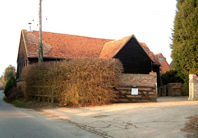 Hog Lane Farm. There are several farms along Hog Lane - but this is the eponymous one !